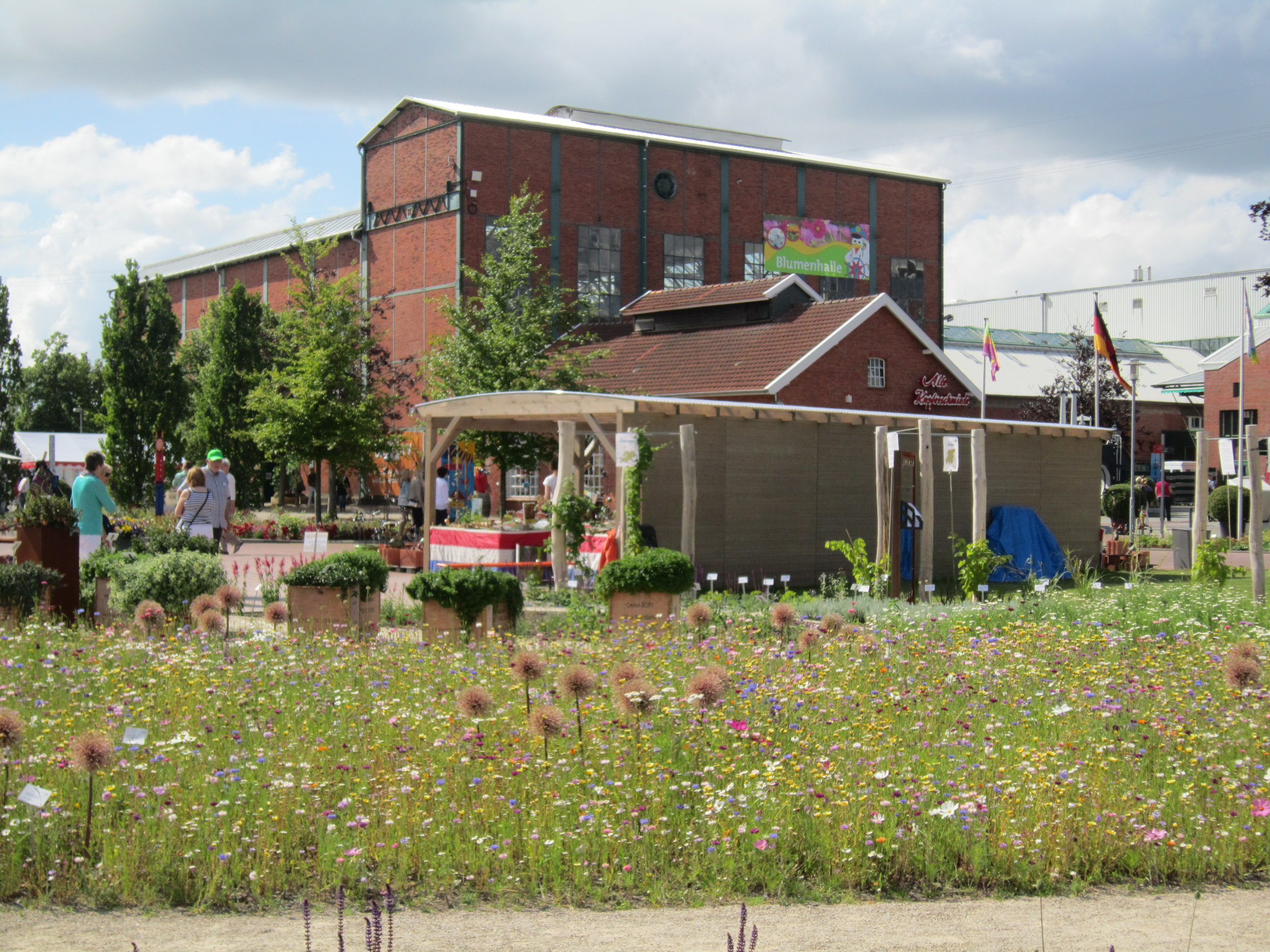 Lower Saxon Garden Festival 2014 in Papenburg, location Old Wharf